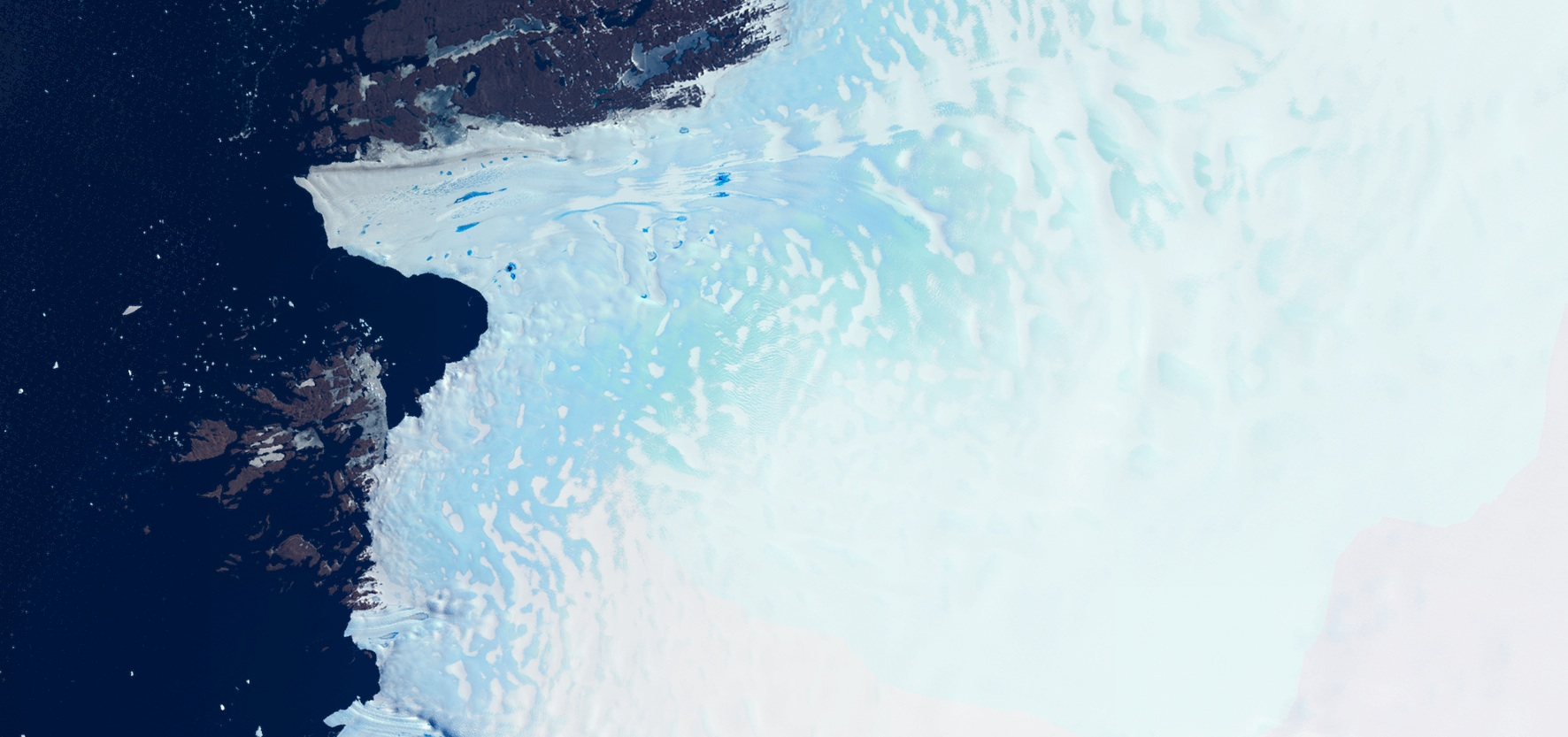 Screenshot of MapBox's new imagery for Antarctica. Source imagery via Landsat Image Mosaic of Antarctica (LIMA) Project. More details here